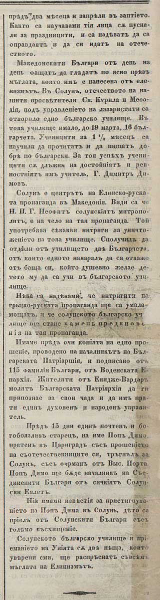 Article from Bulgaria Newspaper about the foundation of the Thessaloniki Bulgarian Catholic Seminary.